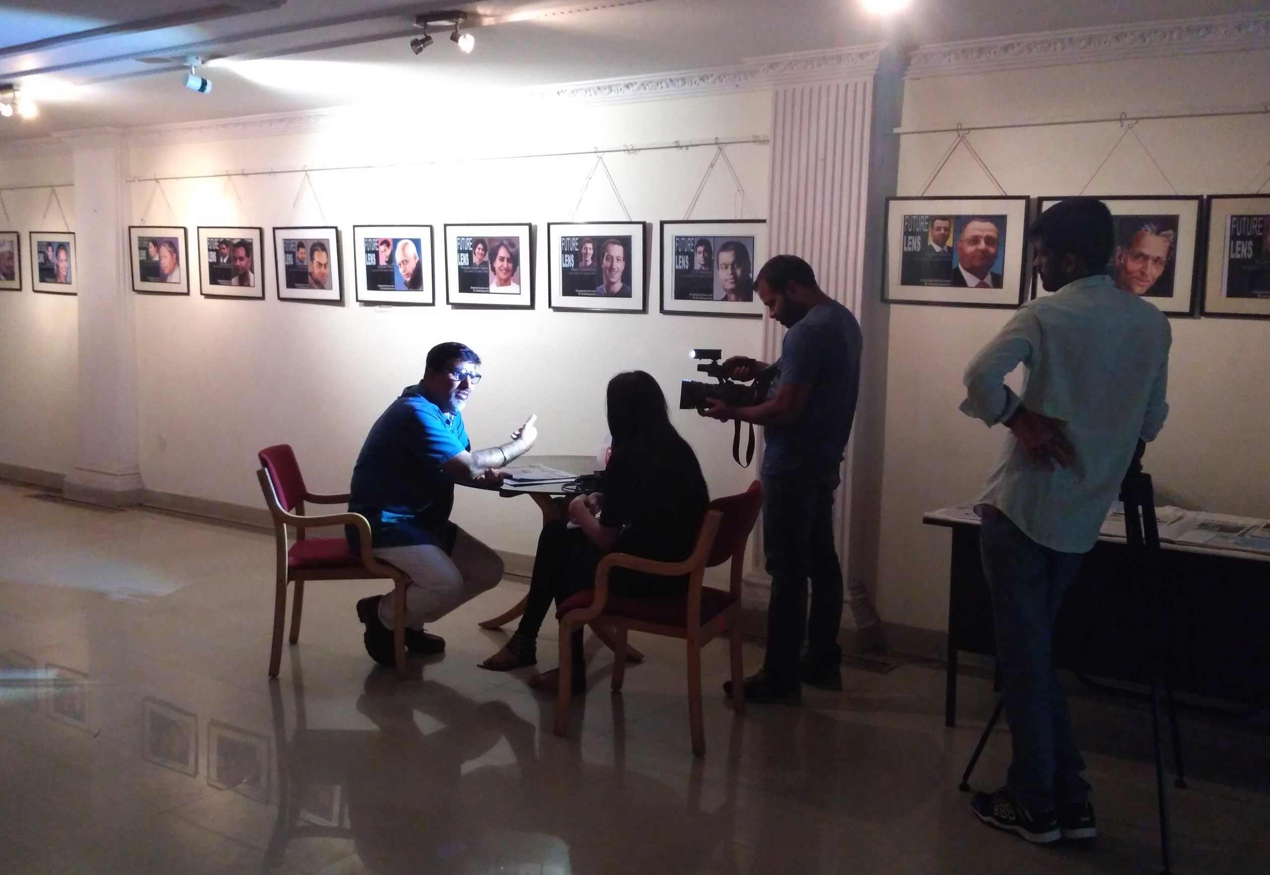 Media Reporting during the exhibition of Cartoons by Shekhar Gurera at Indian Cartoon Gallery, Bangalore